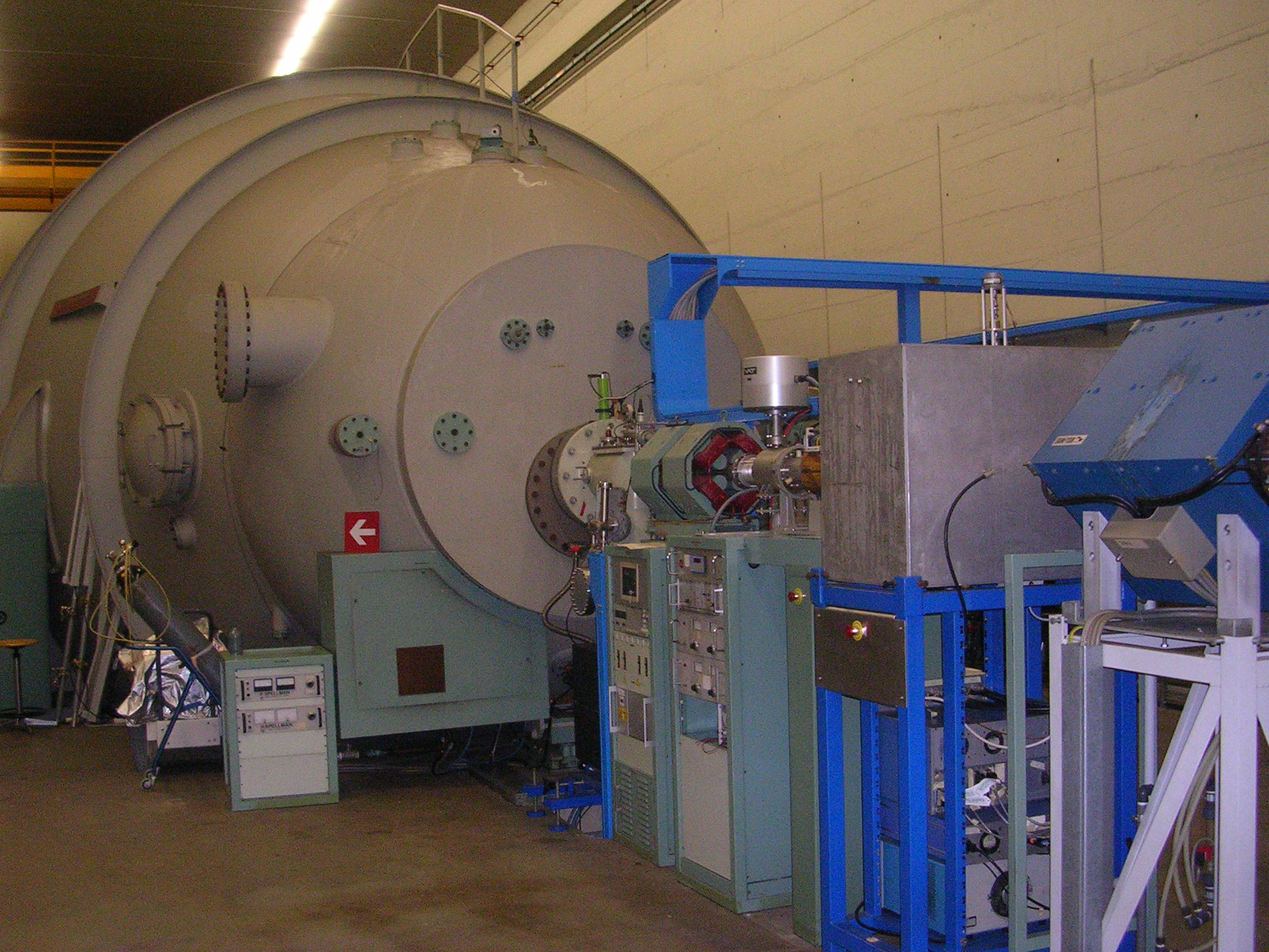 Double Van der Graaff type particle accelerator Tandem XTU at Legnaro National Laboratories of INFN. Legnaro (Padua), Italy.